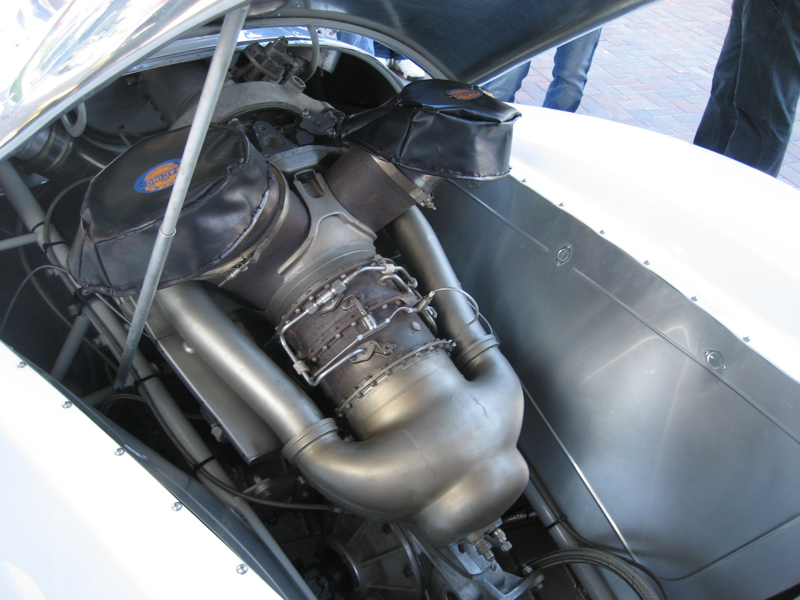 An Allison turbine inside the Howmet TX sports car.